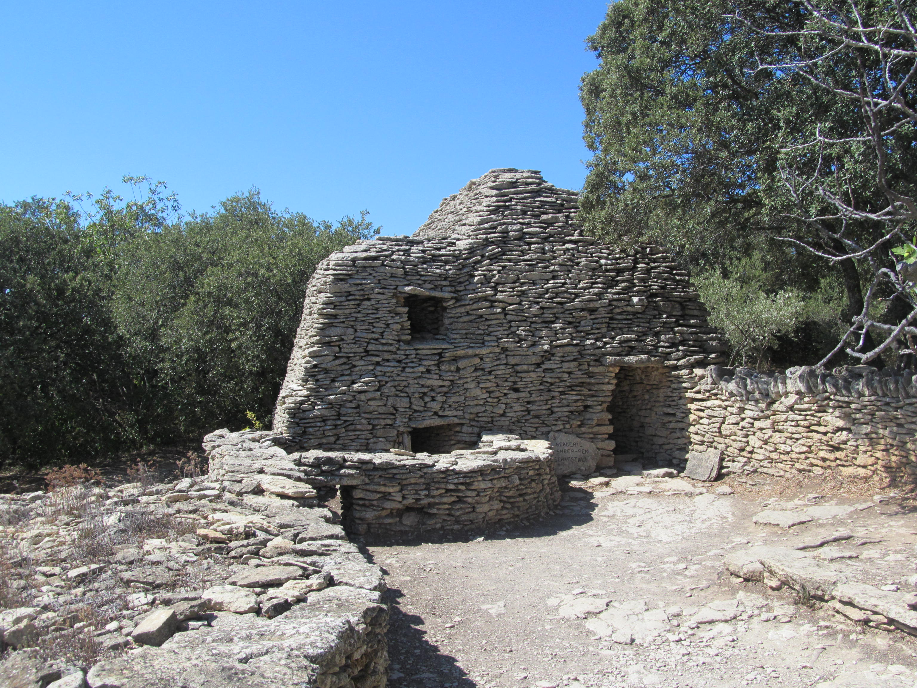 House with Sheepfold